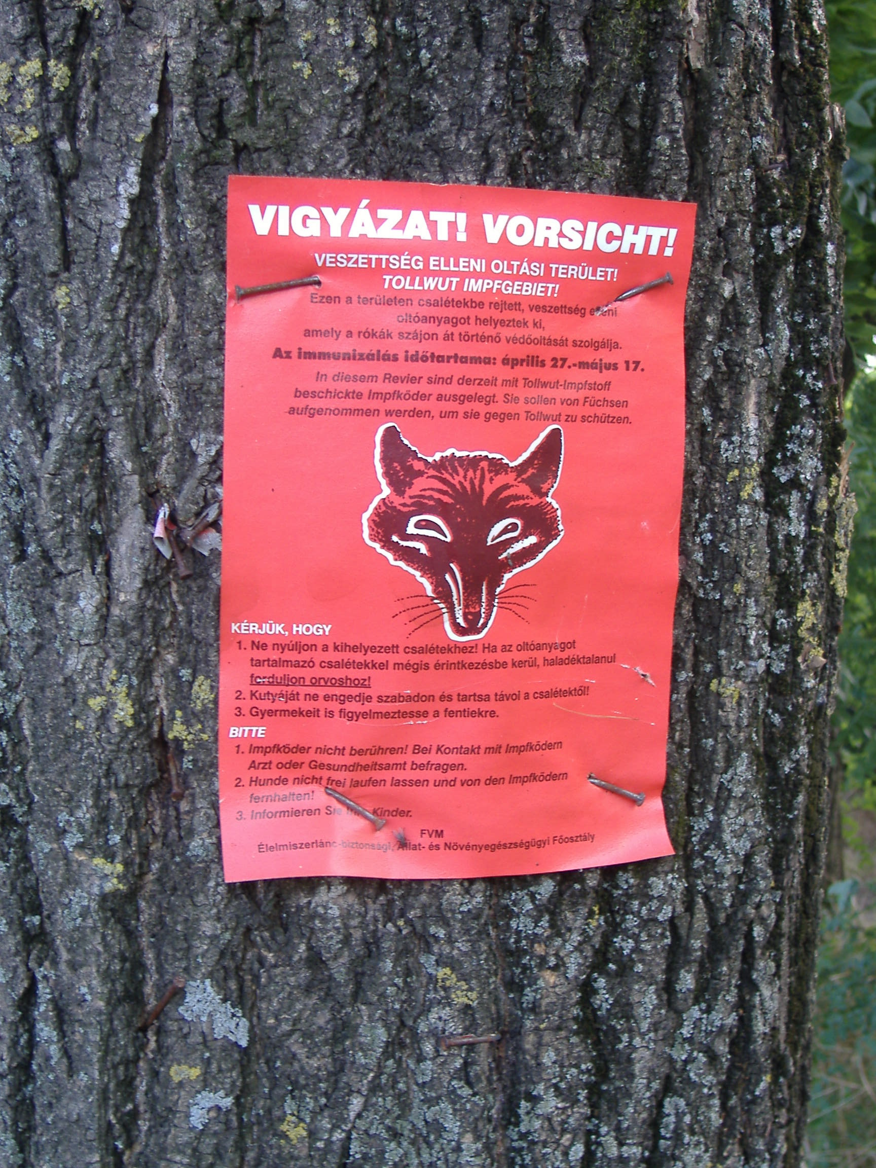 Poster warning to the danger of rabies near Makó, Hungary.